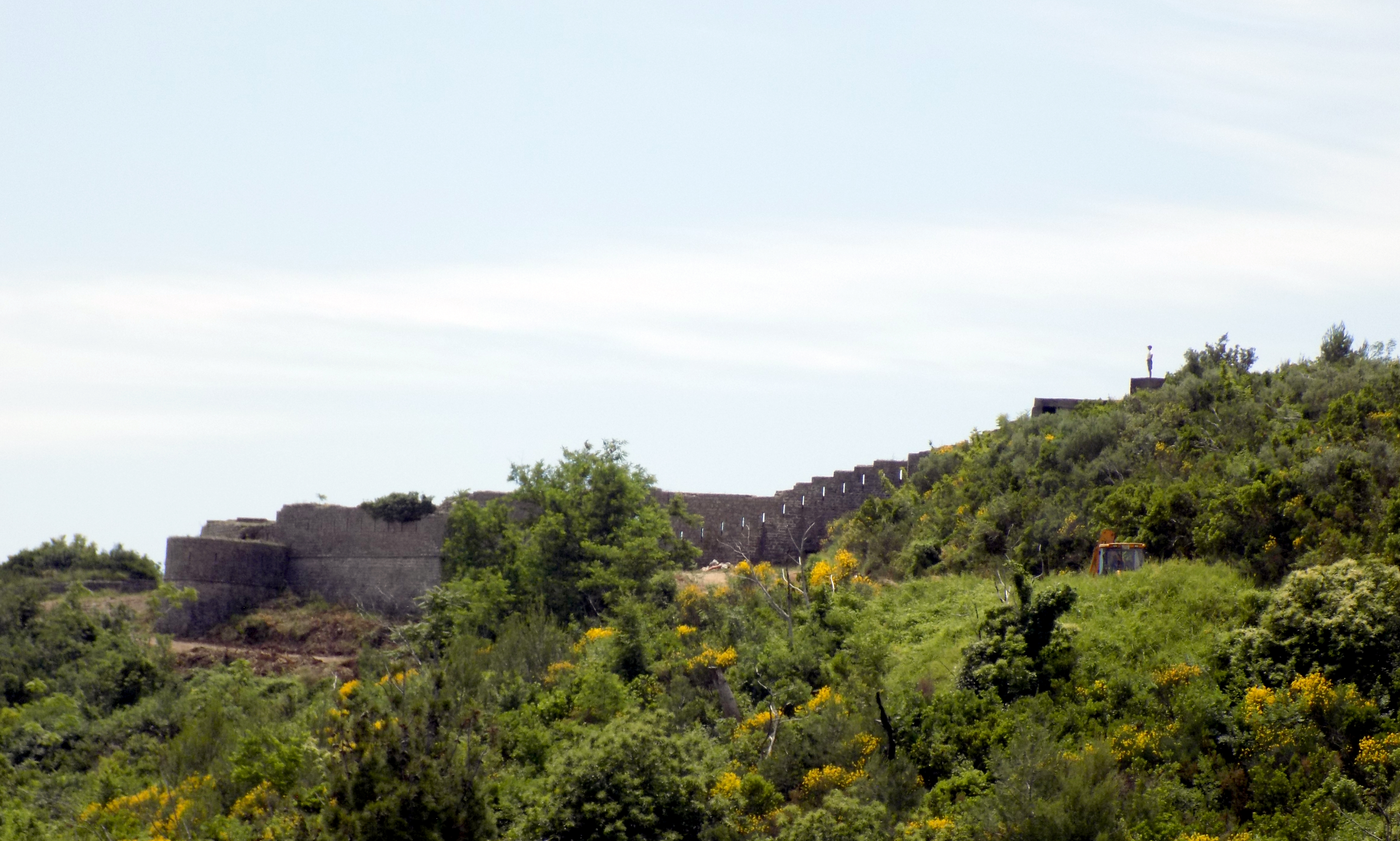 The remains of the Mogren fort on a hill above the beach of the same name, close to Budva (Montenegro)